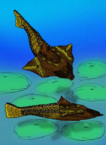 Reconstruction of the traquairaspidid heterostracan agnathan, "Phialaspis," Traquairaspis symmondsi, of Late Silurian Wales and England.